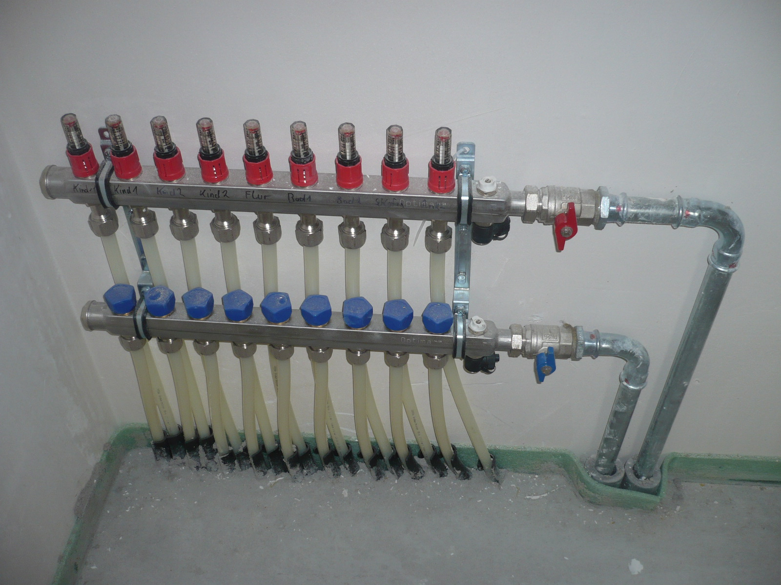 Typical floor heating manifold